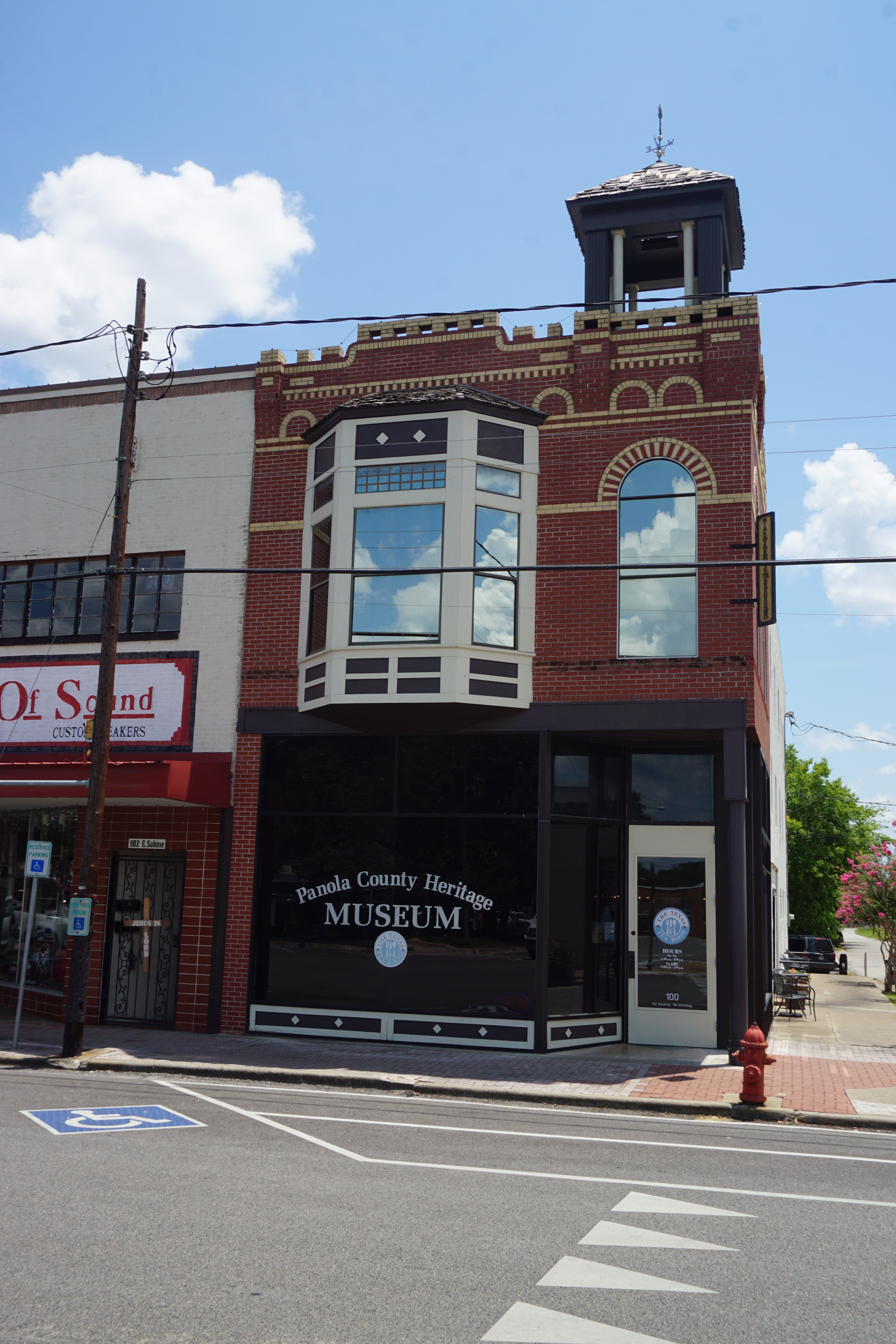 The Panola County Heritage Museum and The Texas Tea Room in Carthage, Texas (United States).